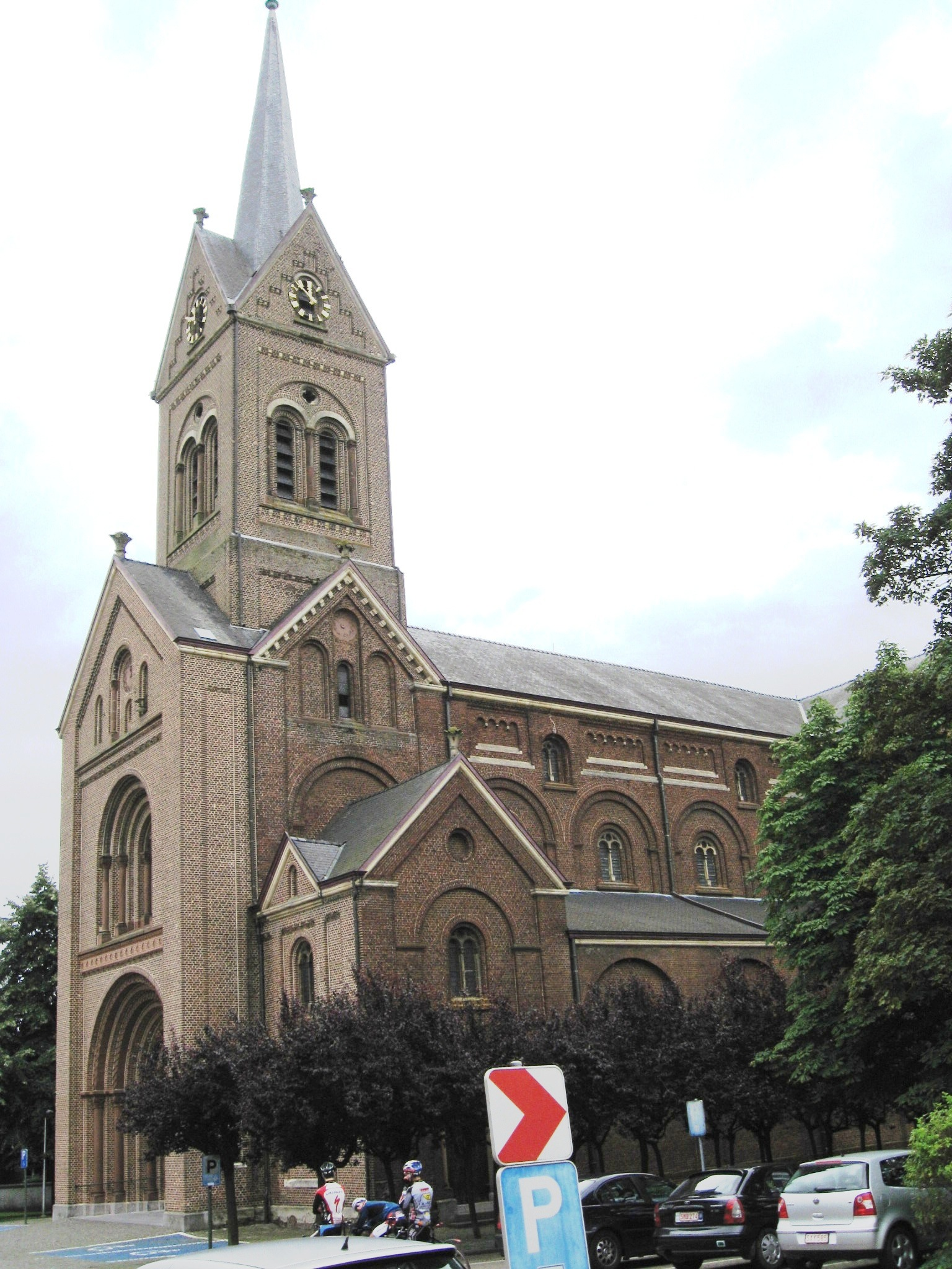 Church of Our Lady in Lummen, Limburg, Belgium